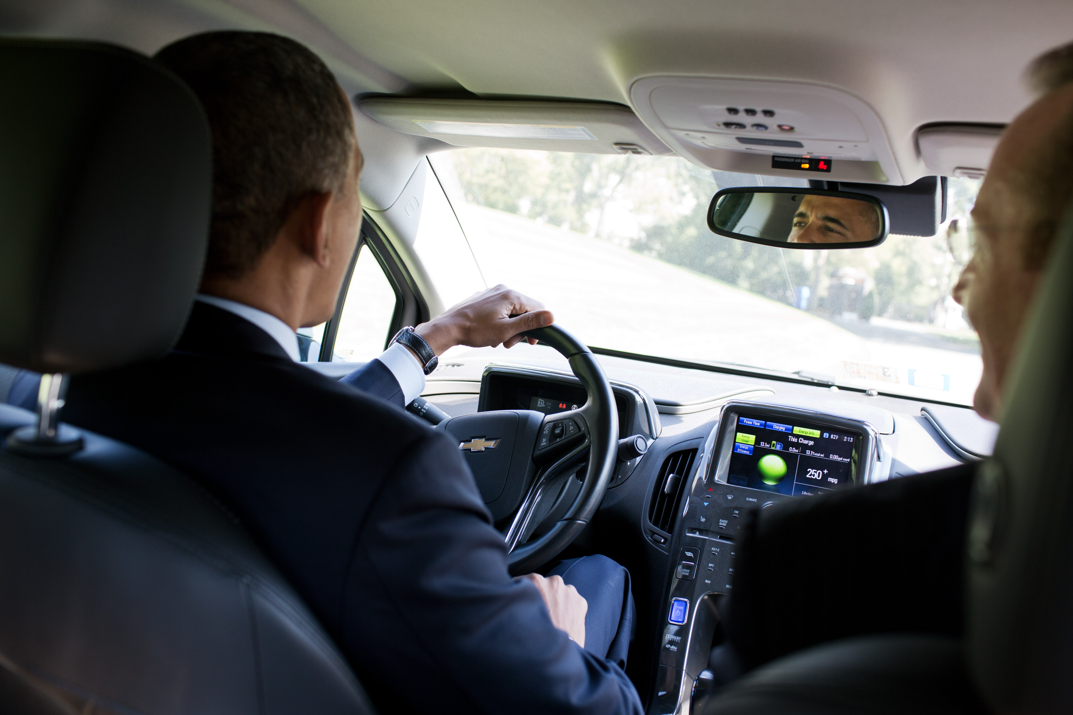 United States President Barack Obama driving former Press Secretary Robert Gibbs' car (Chevrolet Volt plug-in hybrid) around the South Lawn Drive of the White House on 12 October 2012.